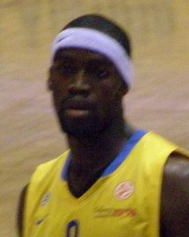 An American basketball player playing for Maccabi Tel Aviv